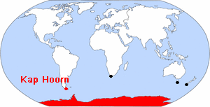 Map of the world: Antarctica and Cape Horn are marked in red; Cape Agulhas (South Africa), South East Cape (Tasmania/ Australia) and South West Cape (southern-most point of New Zealand) are marked in black